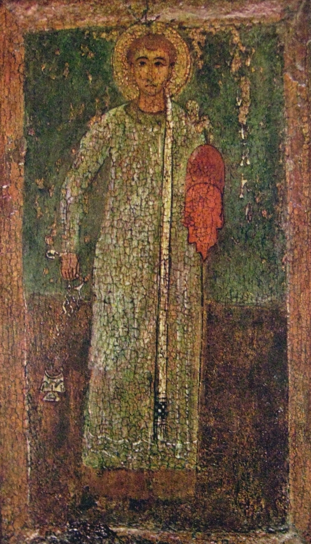 Archideacon Stephen, 11 c. Byzantine icon. Hermitage/ Архидьякон Стефан